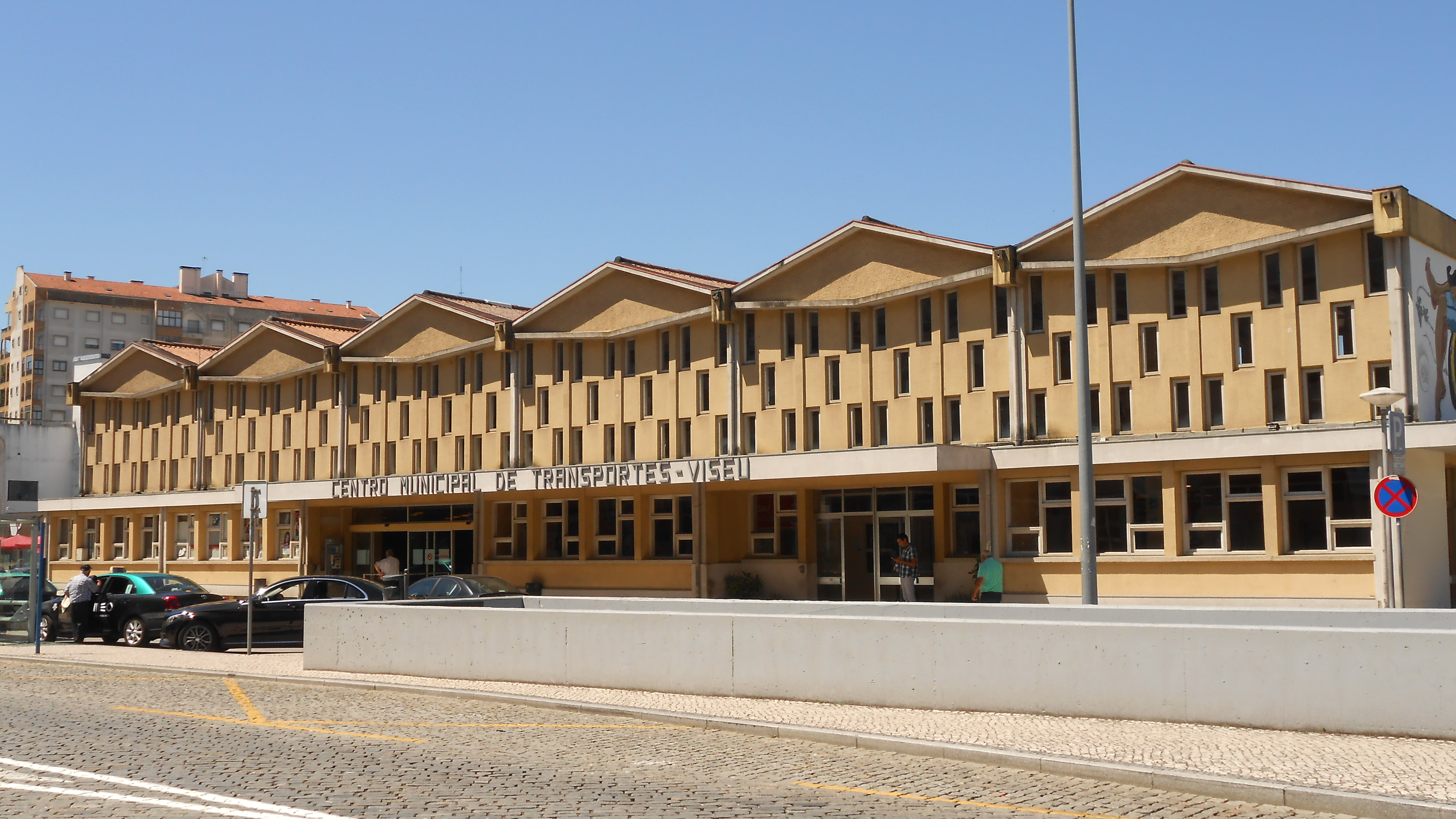 The central bus station of Viseu.